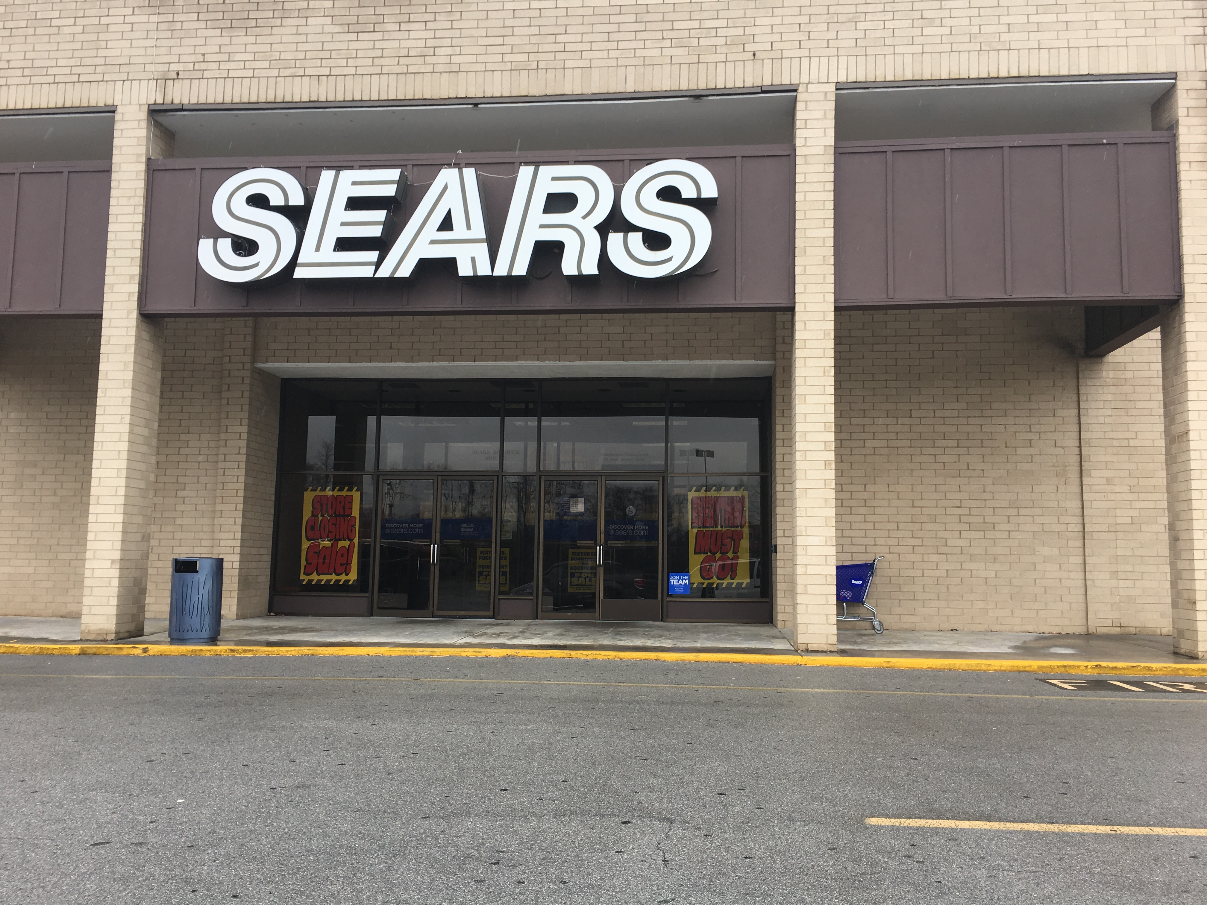 A picture of the Sears at the Bristol Mall having a liquidation sale.